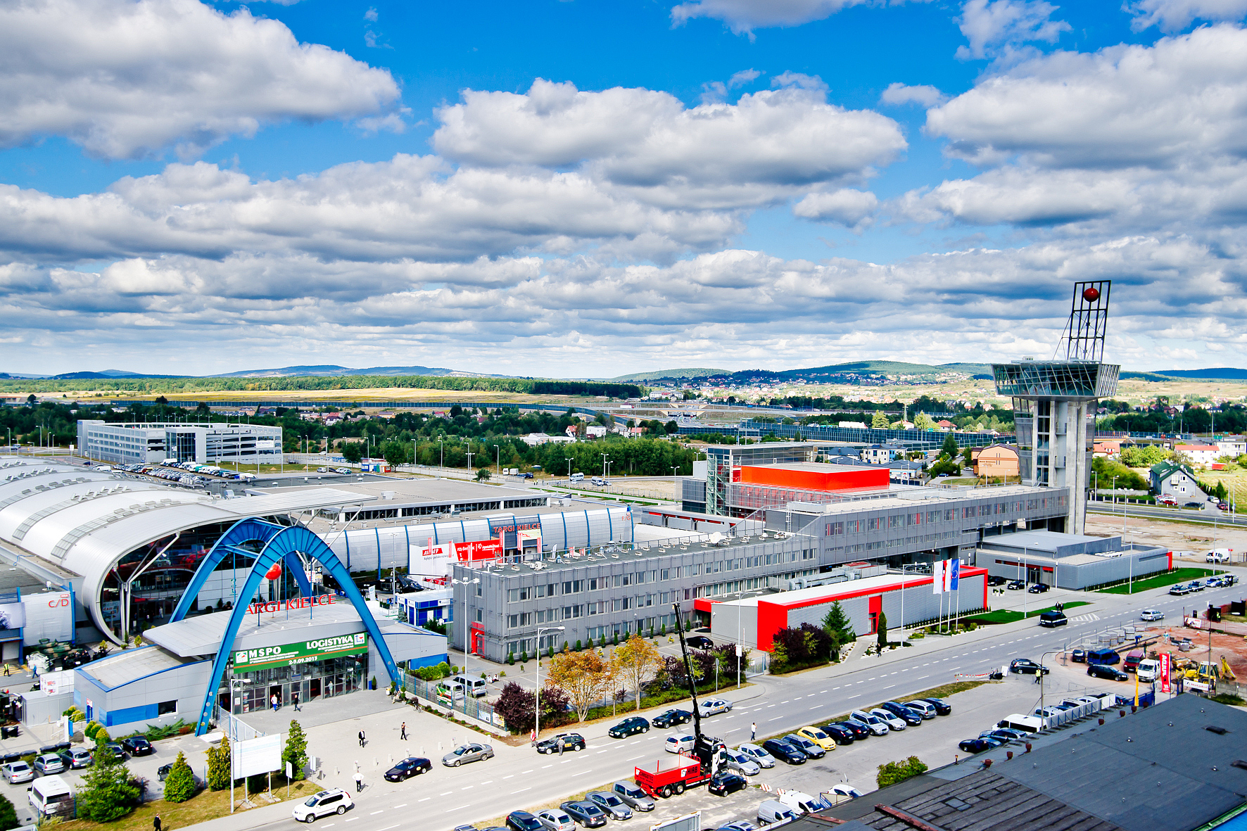 KIELCE TRADE FAIRS